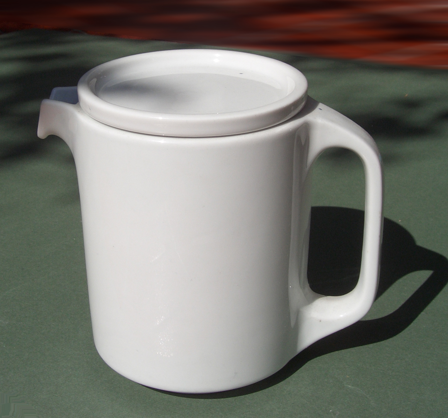 Stackable coffee or tea pot designed by the German designer Nick Roericht in the 1960ies